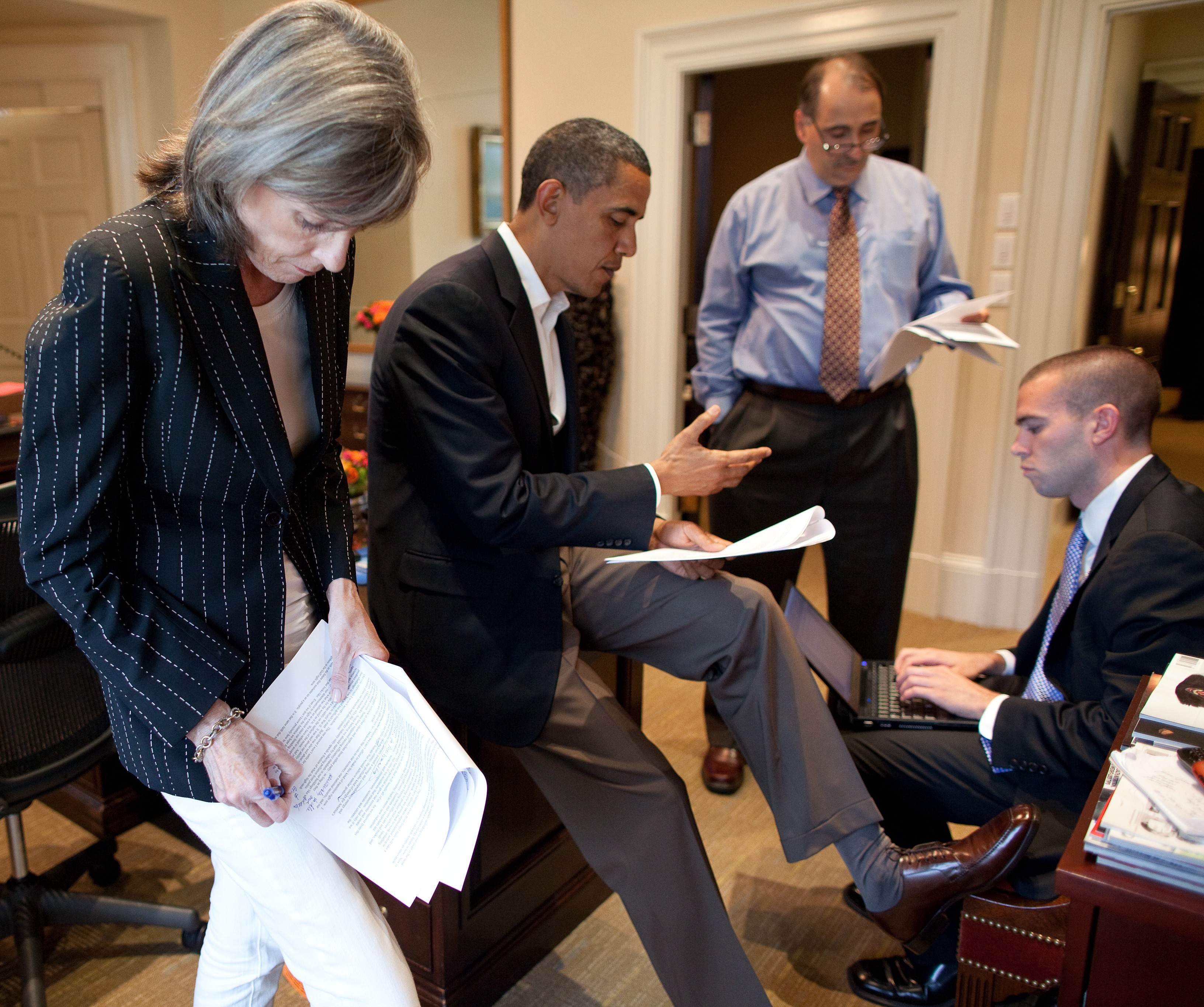 "It's always interesting to see how involved the President is with editing his speeches. A few hours before his first nationally televised address to the nation, the President works on edits with aides Carol Browner, David Axelrod, and Jon Favreau in the Outer Oval Office." (Official White House Photo by Pete Souza) License on Flickr (2011-01-12): United States Government Work Flickr tags: WASHINGTON, DC, USA